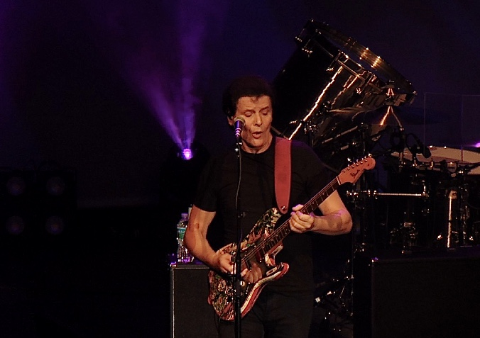 Trevor Rabin performing with Yes featuring ARW